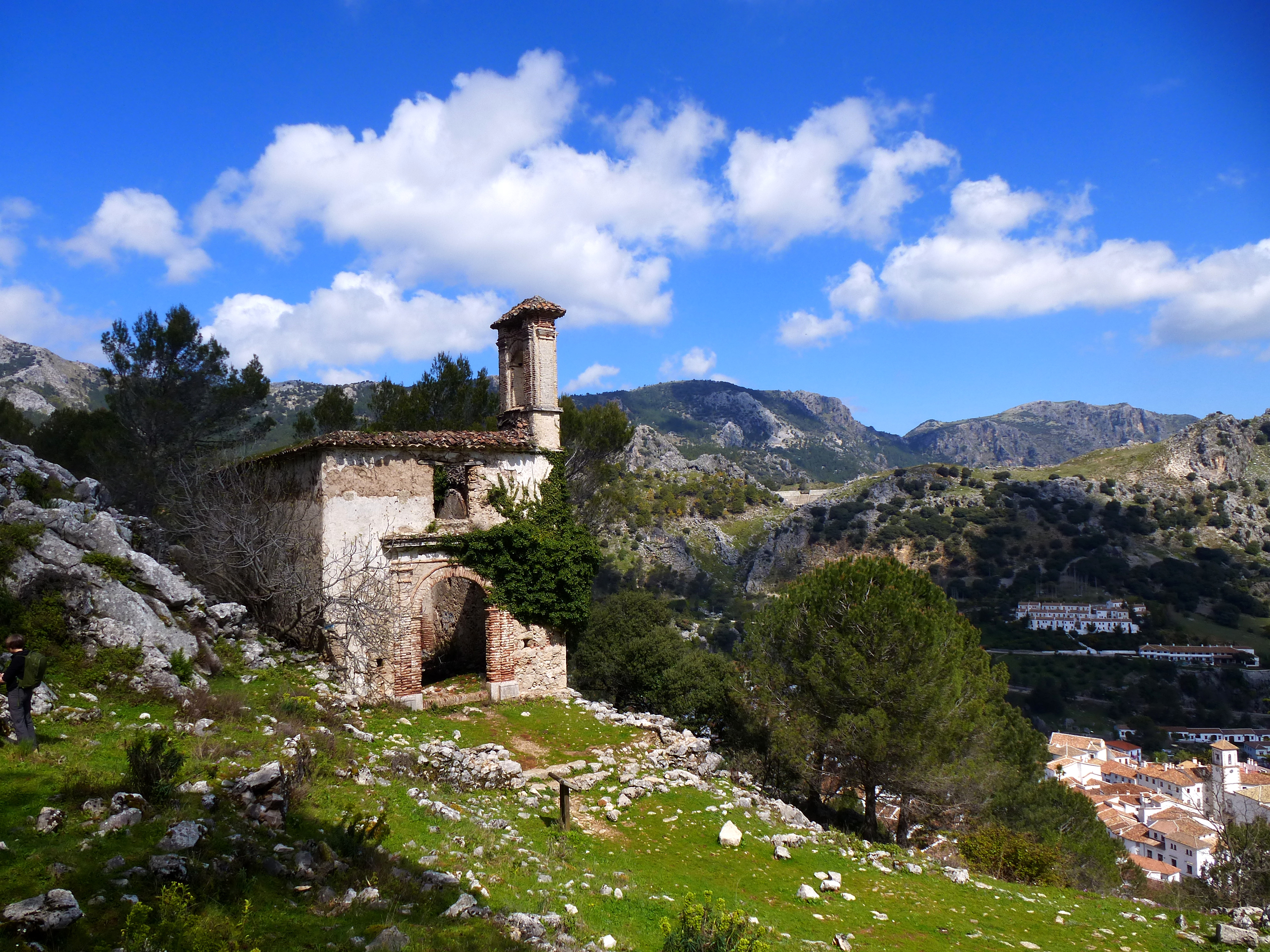 Pilgrimage church "Ermita del Calvario" near Grazalema (province Cadiz), Spain. Erected in the 18th century. Destroyed 1936 during the Spanish Civil war.